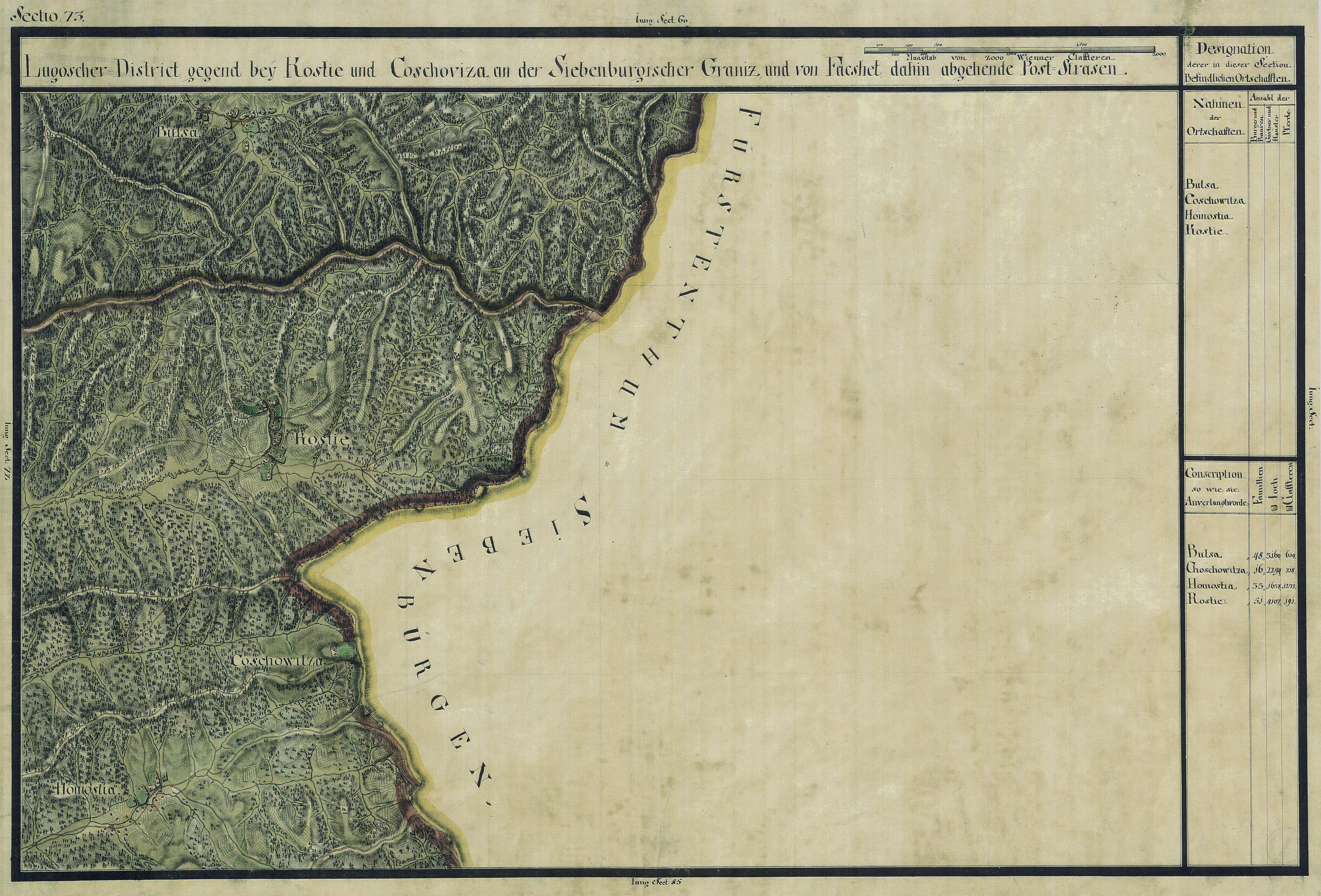 The Banat region in the cadastral maps: Josephinische Landesaufnahme, 1769-72. Josephinische Landaufnahme pg073